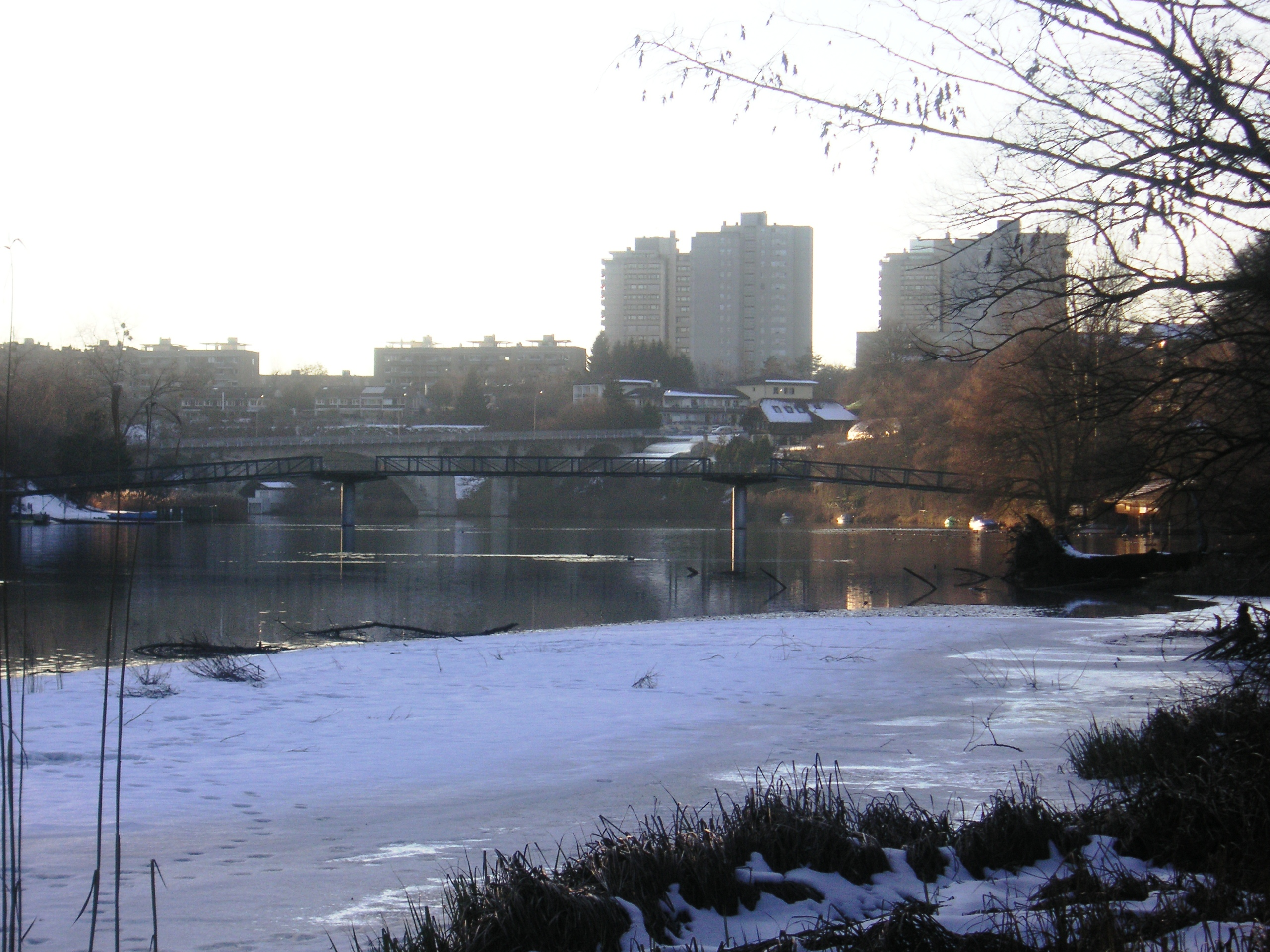 Stägmattsteg mit Kappelenring, Wohlen bei Bern, Switzerland